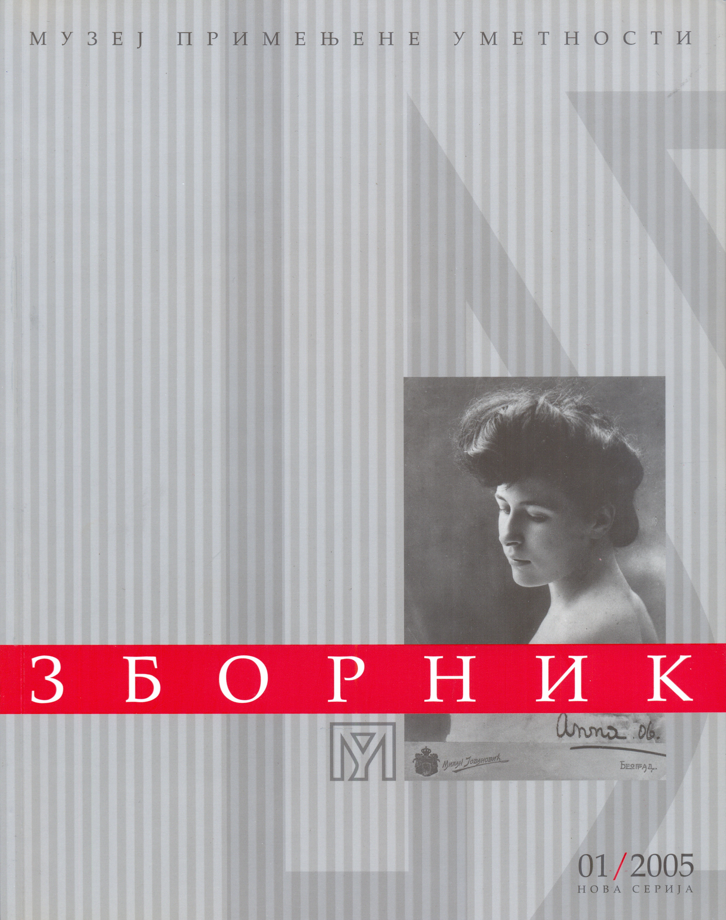 Cover of Zbornik (new series), number from 2005, Museum of Applied Art, Belgrade, Serbia